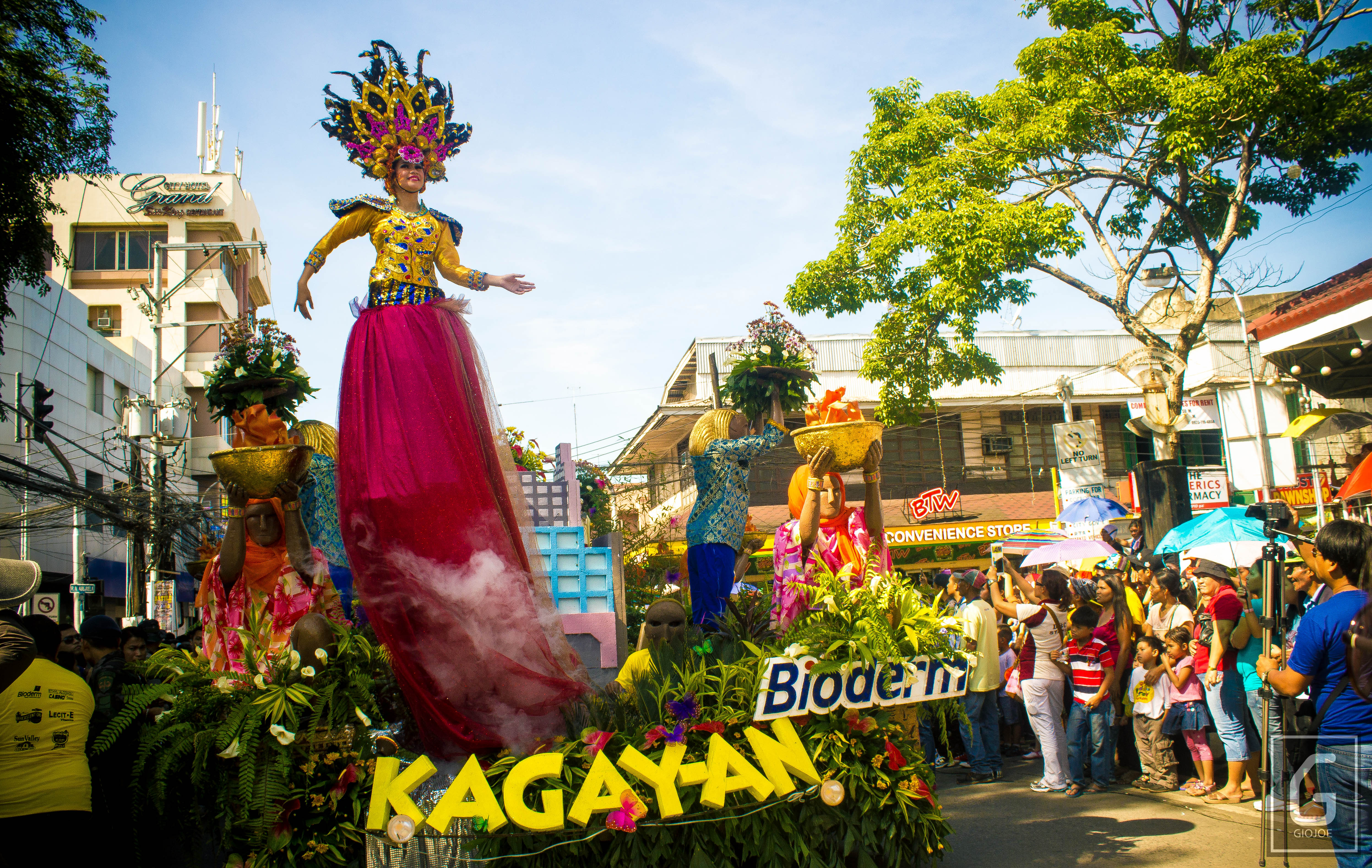 Kagayan Festival